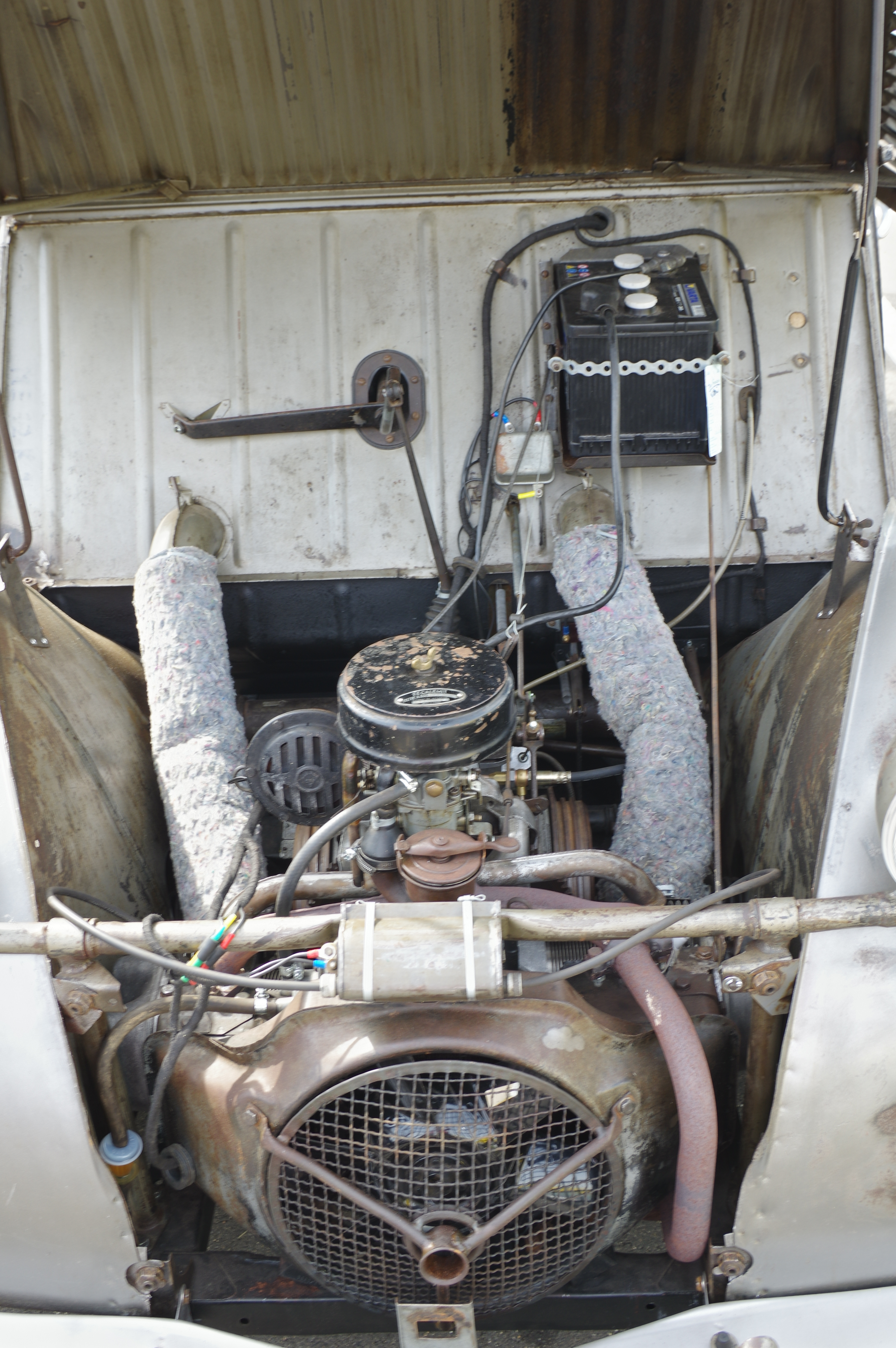 Citroën 2 CV A, 1951, 375 cm³, 2 Zyl., 9 PS , Bitburg Classic 2016